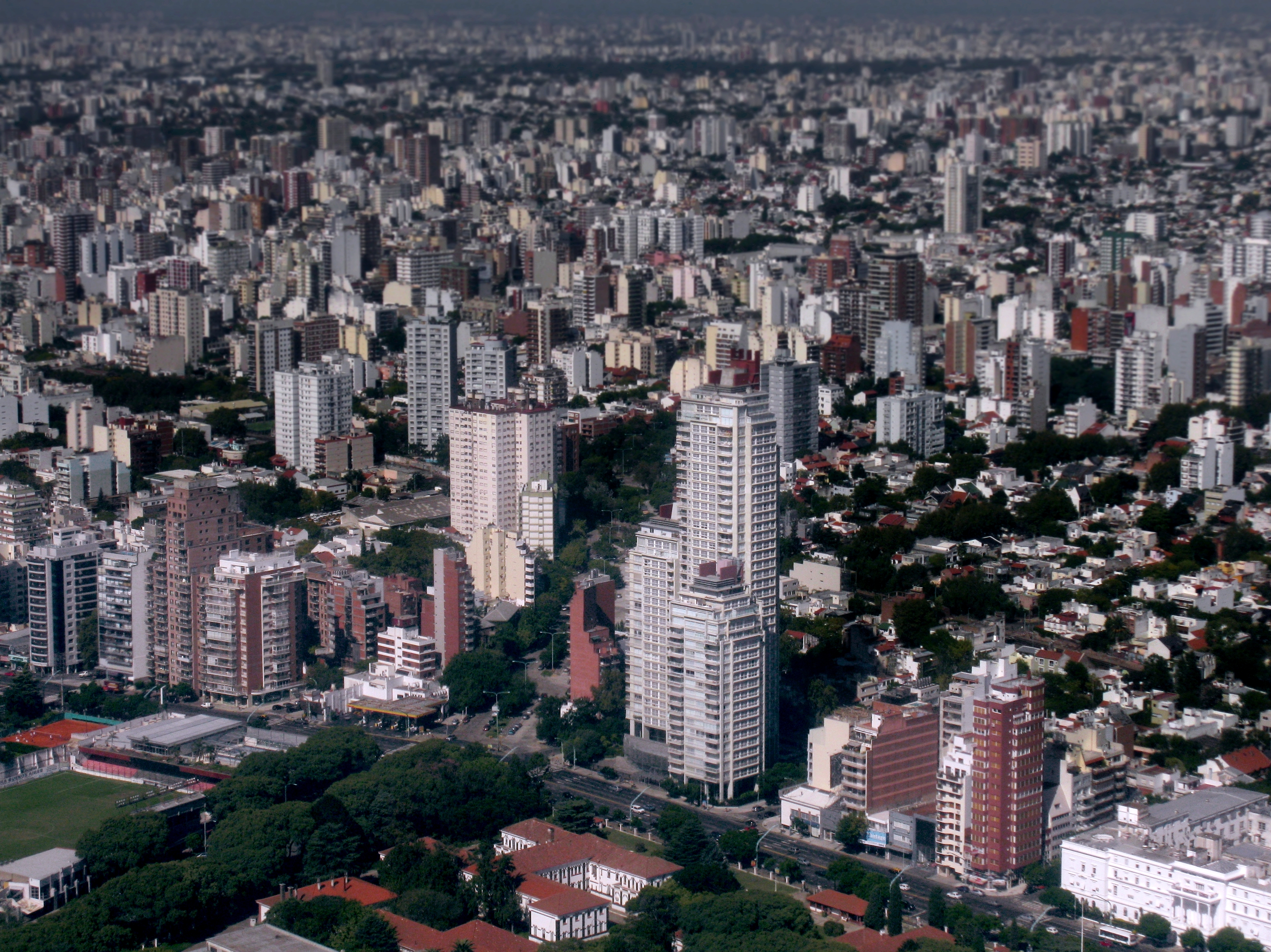 An aerial view of the Núñez section (foreground) of Buenos Aires.